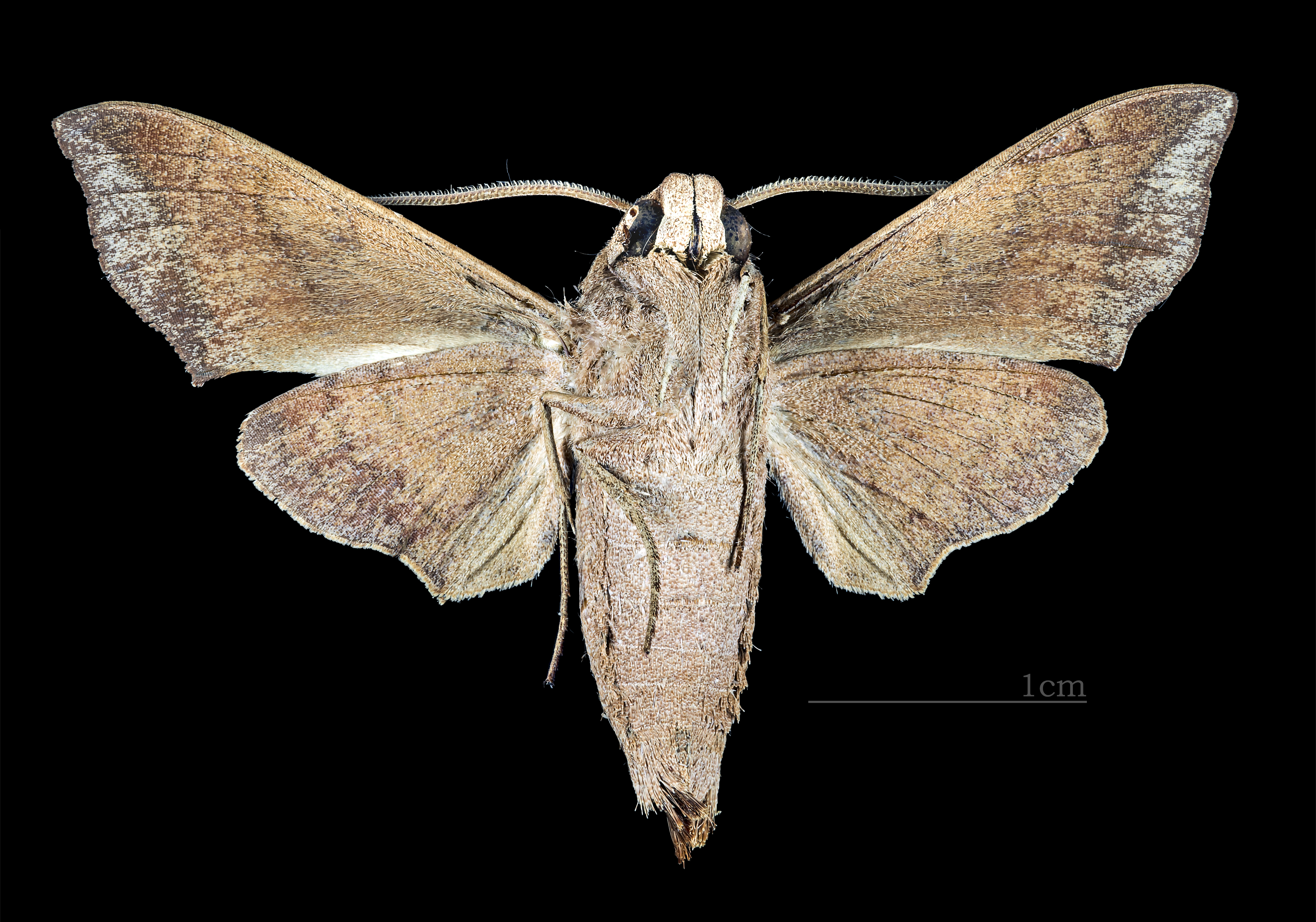 Perigonia lefebvraei - △ Ventral side Collection of the Mathematician Laurent Schwartz